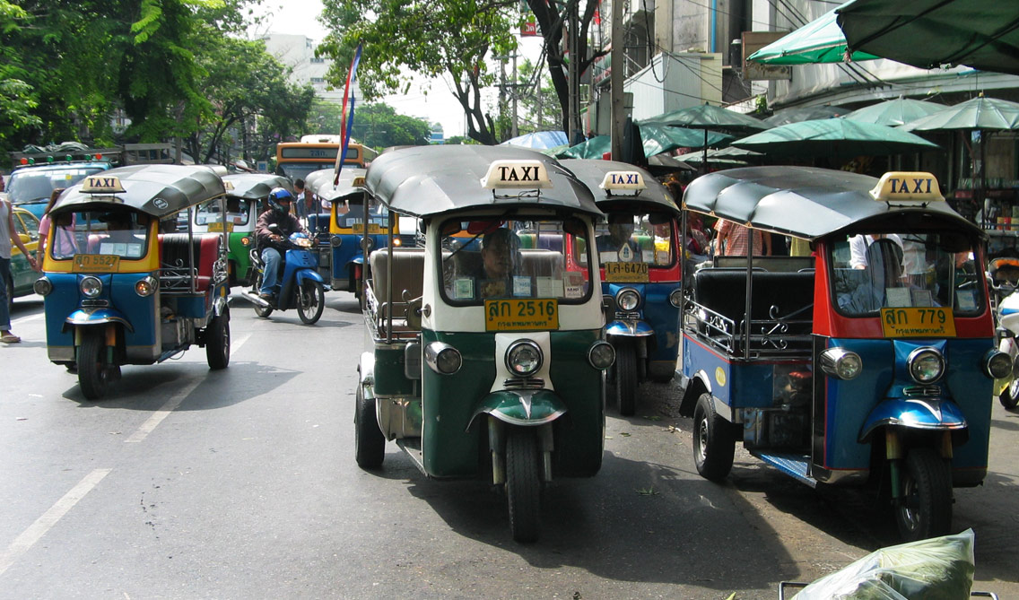 Tuk tuk in front of Pak Klong Market, Bangkok, Thailand, own photo June 2005